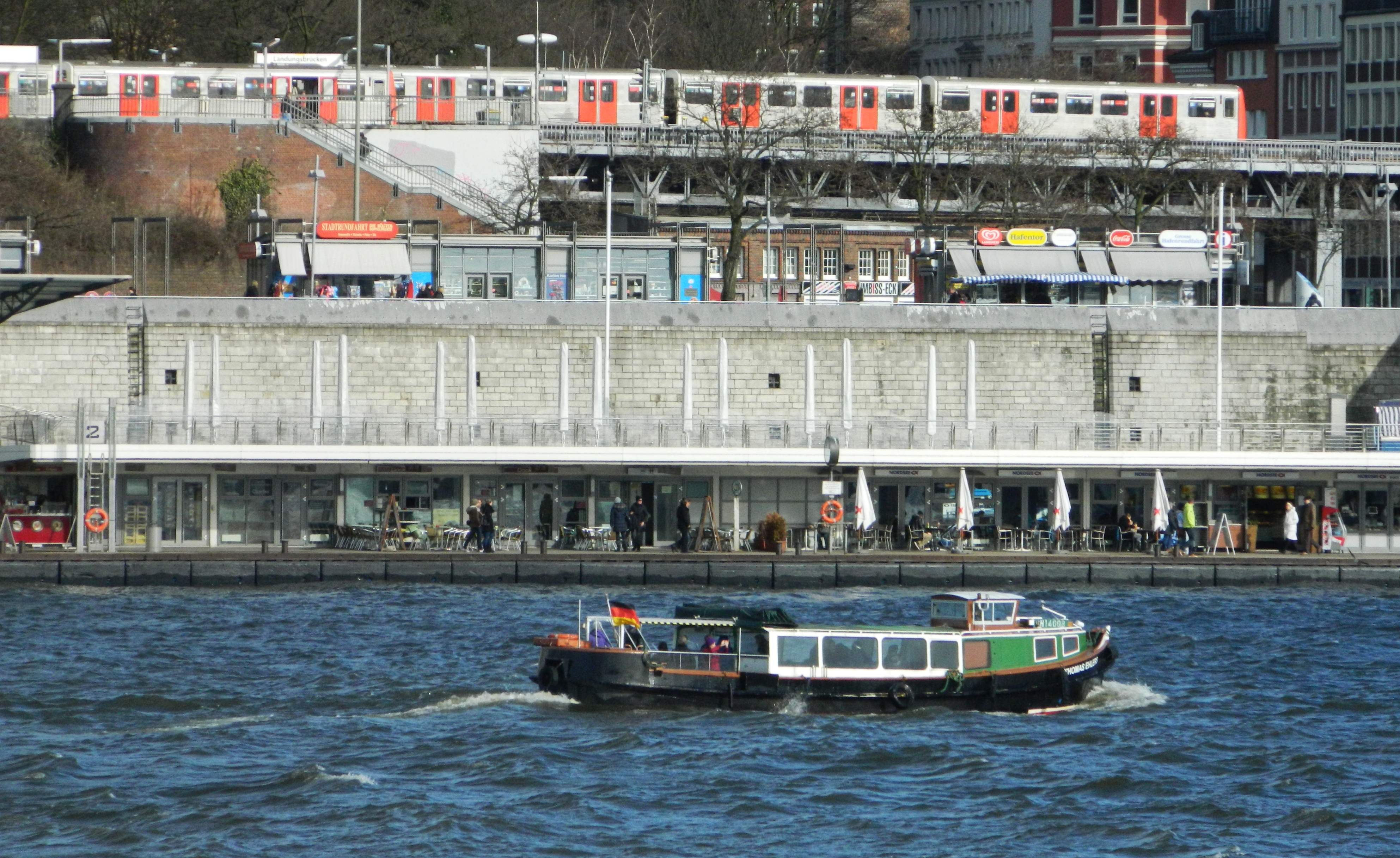 Thomas Ehlers